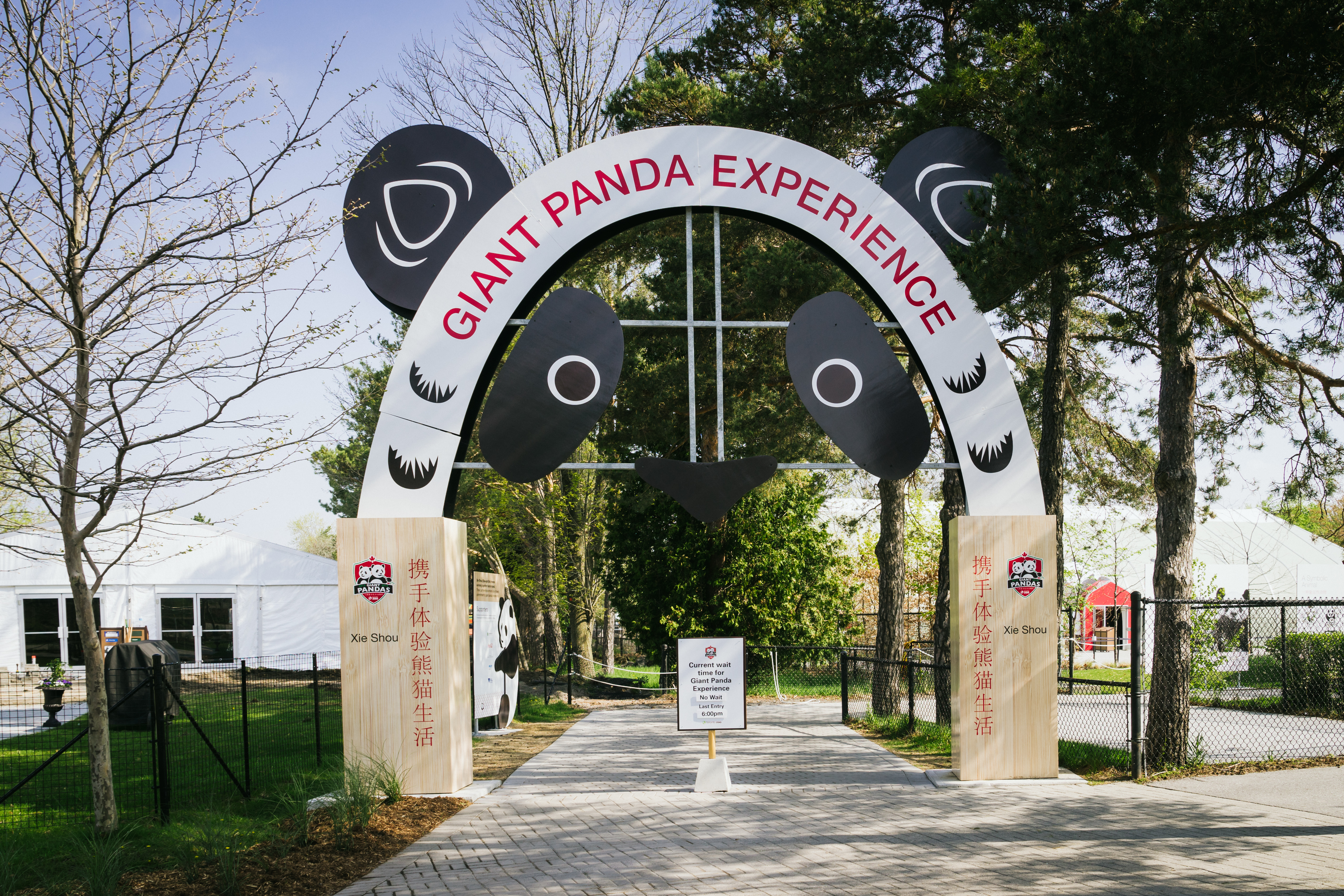 Entrance to see the pandas Toronto Zoo, Ontario, Canada